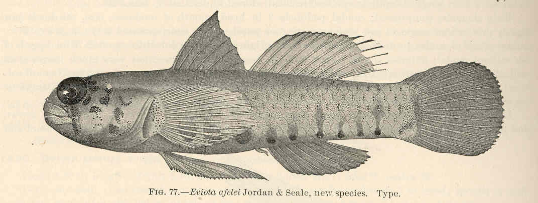 Eviota afelei Jordan & Seale, new species. Type Subject: Eviota Tag: Fish